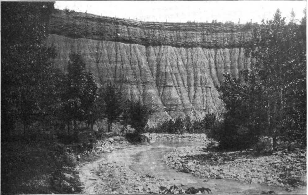 Gorge of Euclid Creek in 1913 in what is now the Euclid Creek Reservation of the Cleveland Metroparks in Cleveland, Ohio, in the United States. The site is about 60 feet (18 m) upstream from the second bridge crossing south of Chardon Road. The image shows about 70 feet (21 m) of the Chagrin Shale, topped by about 5 feet (1.5 m) of the Cleveland Shale.